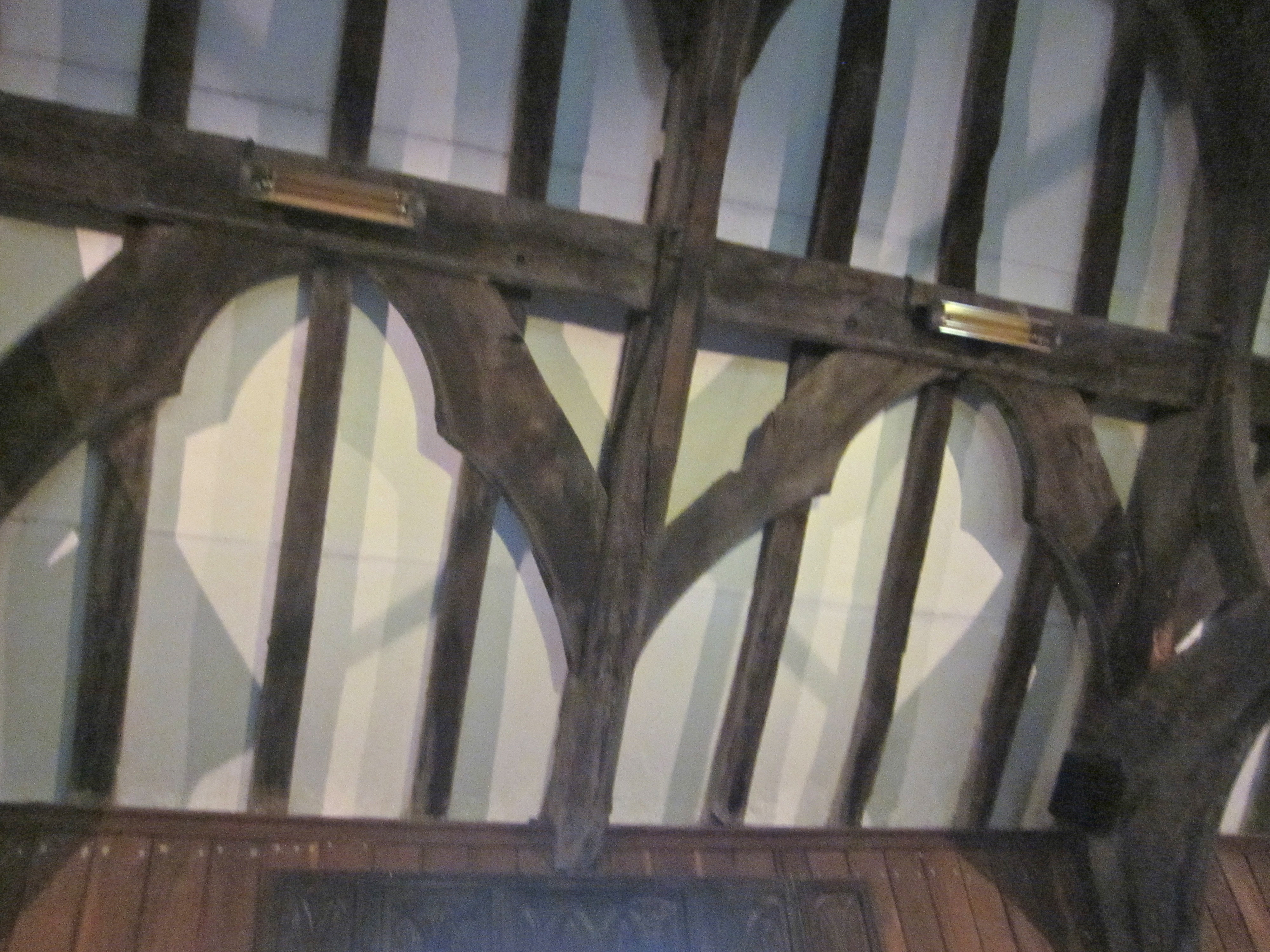 The timber framed church at Trelystan, Montgomeryshire. North side showing restoration work in Sept 2014. Decorative wind bracing in nave.